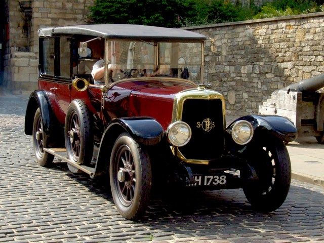 Castle Hill, Lincoln - Vehicle Panhard Levassor X46 (cylinder capacity 2300cc) Year of Manufacture 1924. Date of First Registration 31-DEC-1924. The body was built by Salmons and Son, Coachbuilders with a history going back to the 1820s, when they occupied a cottage and outbuildings, which were part of the walled estate of Tickford Abbey - in SP8844. That area is now part of Newport Pagnell. The Salmon family sold the business in 1942 to Ian Boswell of Crawley, who sold it in 1955 to David Brown, the owner of Aston Martin Lagonda, also of Newport Pagnell. At some point the name changed to Tickford. Now, as Aston Martin Tickford, they make special versions of production cars. See